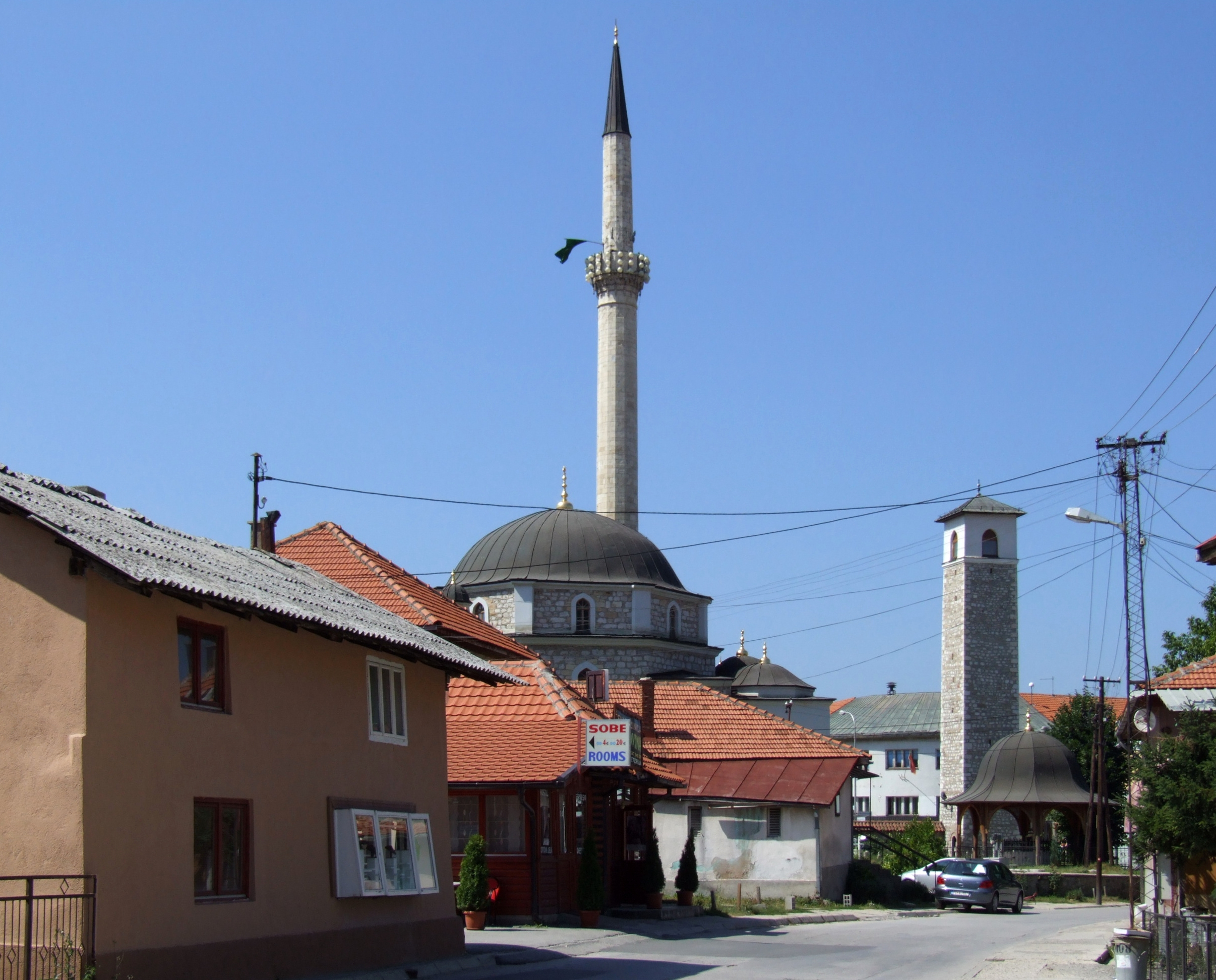 Pljevlja, Montenegro - Husein Pasa mosque